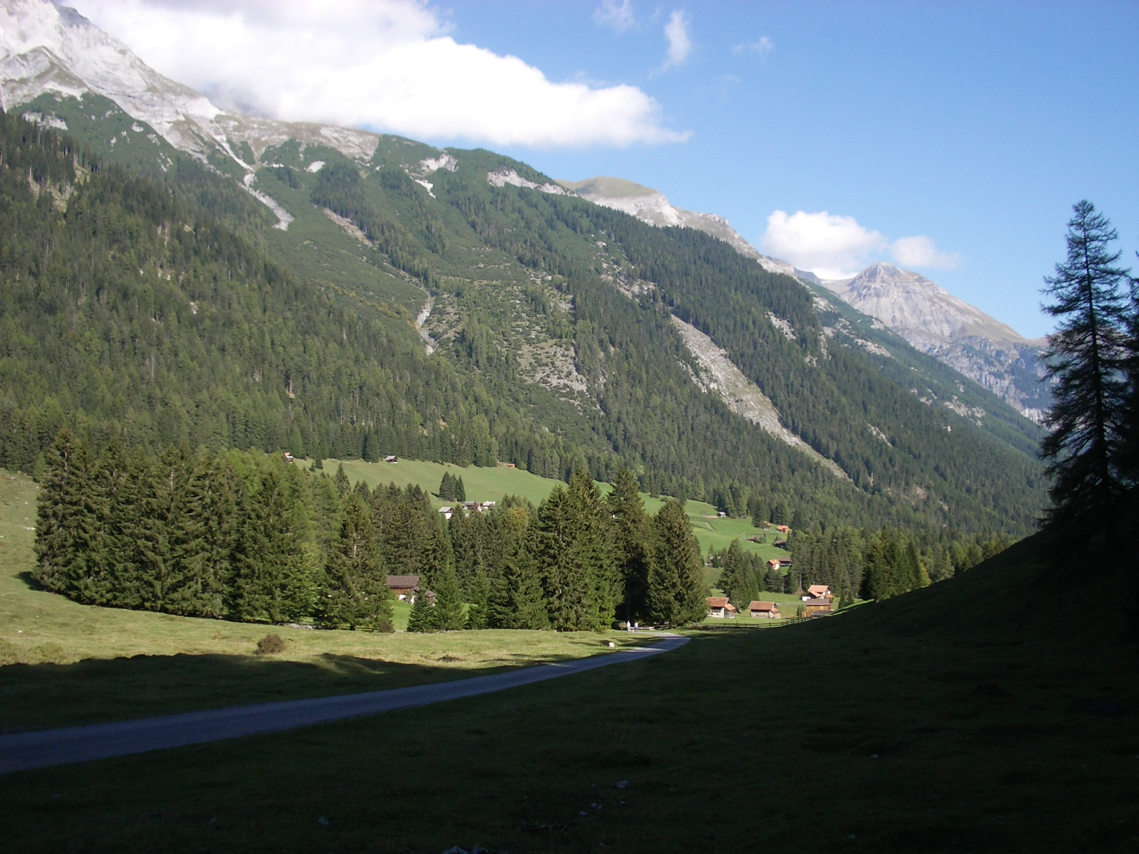 Taminatal SG, Switzerland self-made, September 2006